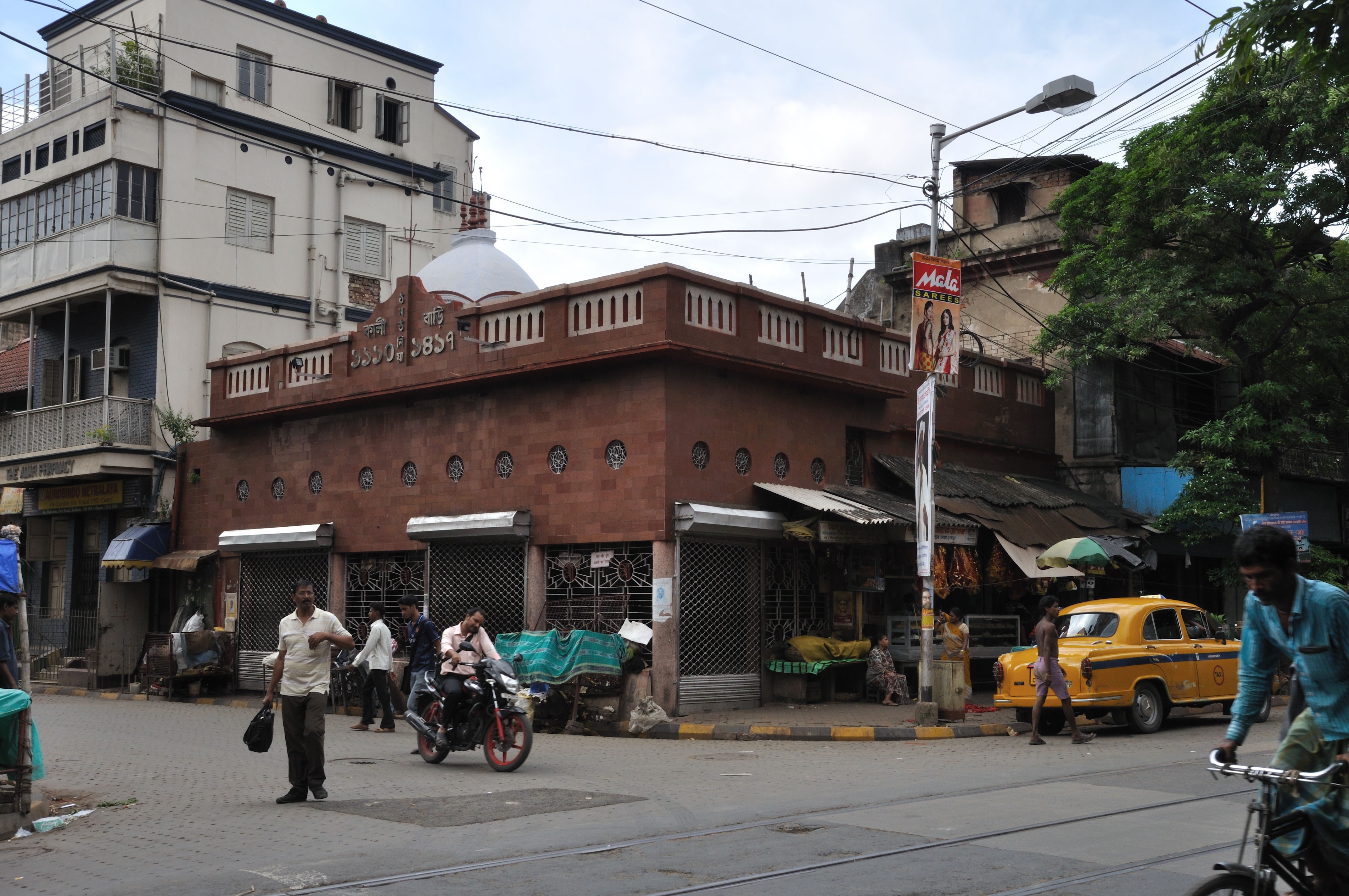 One of the oldest and famous Kali temple at Bidhan Sarani, Kolkata.